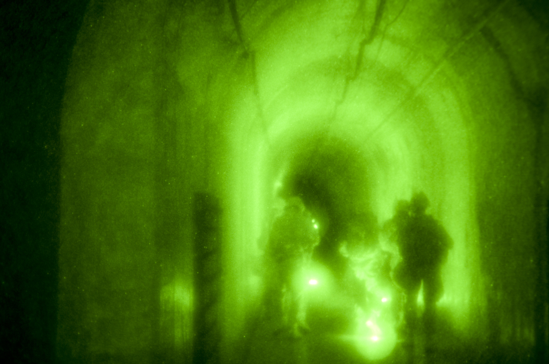 Soldiers with Bravo Company, 1st Battalion, 6th Infantry Regiment, 2nd Brigade, 1st Armored Division delve into the dark recess of an abandoned ammo supply point during subterranean training at West Fort Hood's underground training facility, Nov. 22. The Soldiers were working with the Asymmetrical Warfare Group in order to refine tactics and techniques for entering and clearing underground facilities. (Photo Credit: Sgt. Matthew Thompson)